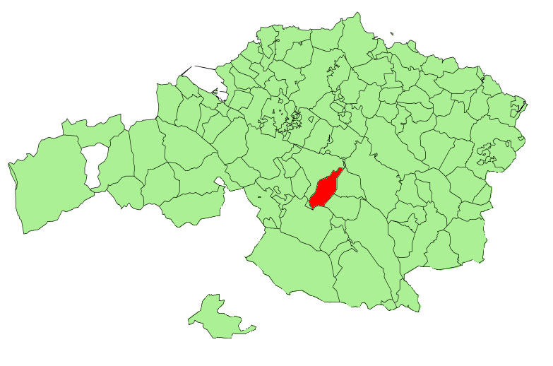 Bedia municipality in the province of Biscay